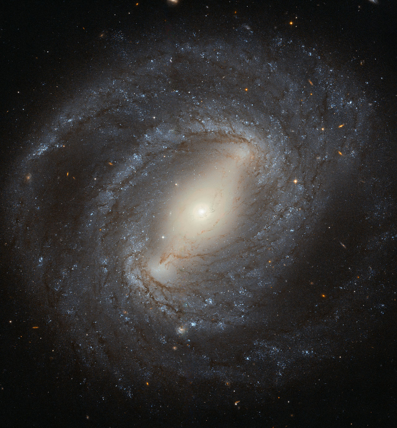 Discovered in 1784 by the German–British astronomer William Herschel, NGC 4394 is a barred spiral galaxy situated about 55 million light-years from Earth. The galaxy lies in the constellation of Coma Berenices (Berenice's Hair), and is considered to be a member of the Virgo Cluster. NGC 4394 is the archetypal barred spiral galaxy, with bright spiral arms emerging from the ends of a bar that cuts through the galaxy’s central bulge. These arms are peppered with young blue stars, dark filaments of cosmic dust, and bright, fuzzy regions of active star formation. At the centre of NGC 4394 lies a region of ionised gas known as a LINER. LINERs are active regions that display a characteristic set of emission lines in their spectra— mostly weakly ionised atoms of oxygen, nitrogen and sulphur. Although LINER galaxies are relatively common, it’s still unclear where the energy comes from to ionise the gas. In most cases it is thought to be the influence of a black hole at the centre of the galaxy, but it could also be the result of a high level of star formation. In the case of NGC 4394, it is likely that gravitational interaction with a nearby neighbour has caused gas to flow into the galaxy’s central region, providing a new reservoir of material to fuel the black hole or to make new stars.